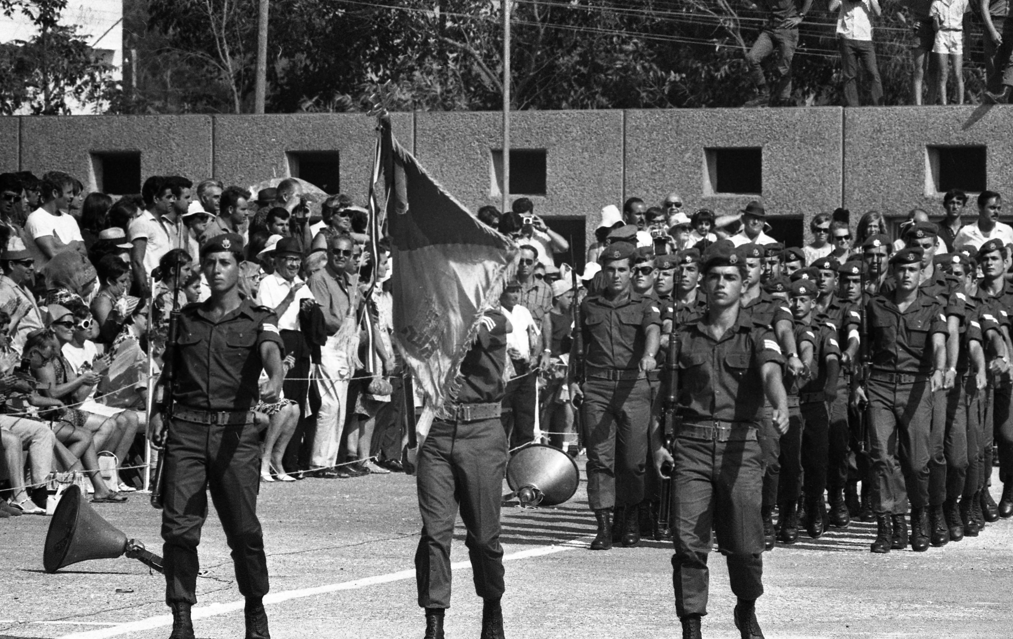 Graduation ceremony of IDF Junior Command Preparatory Boarding School include military parade in the presence of PM Golda Meir, Defense Minister Moshe Dayan and families.